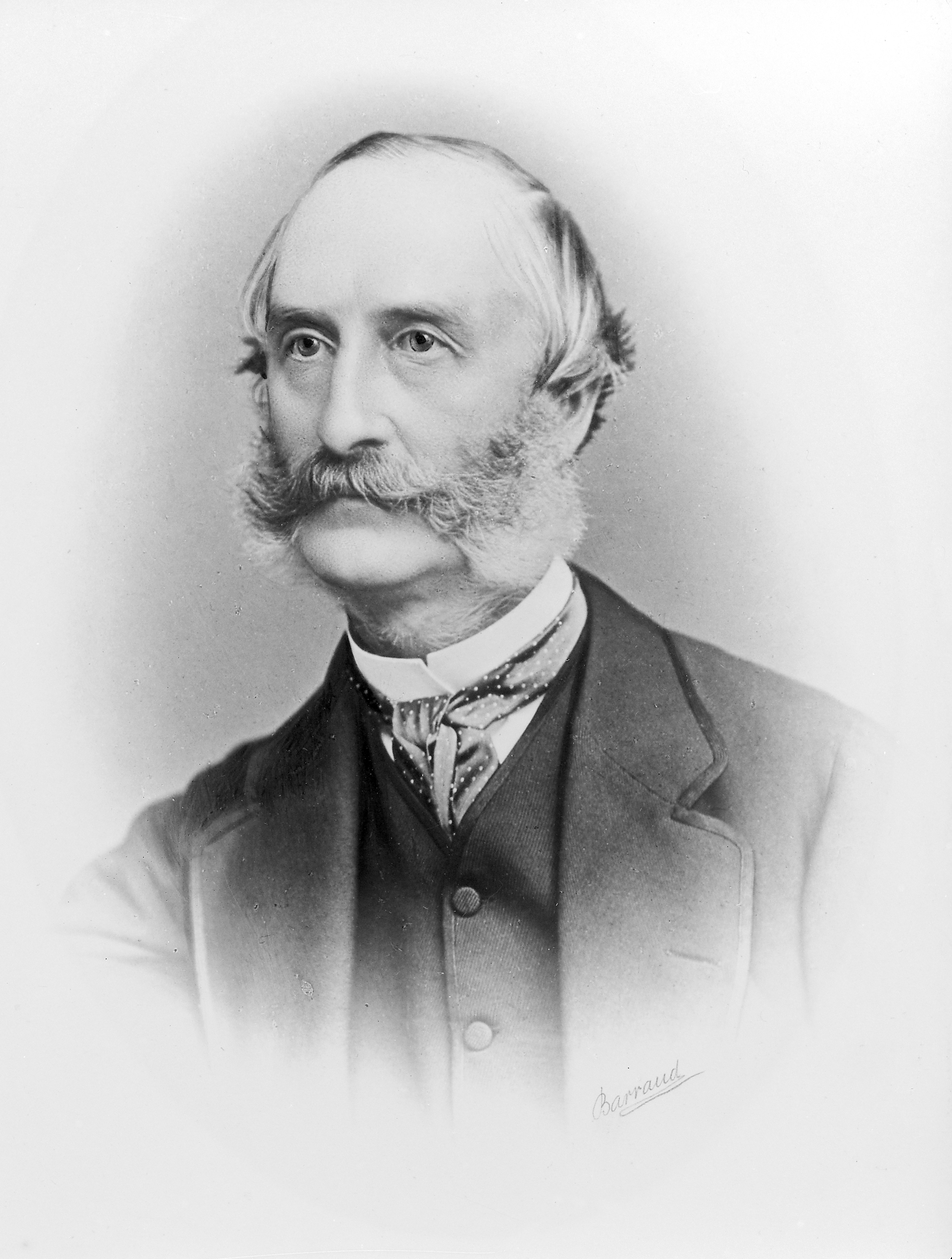 Edmund Alexander Parkes. Photograph by Barraud. Wellcome Images Keywords: Edmund Alexander Parkes